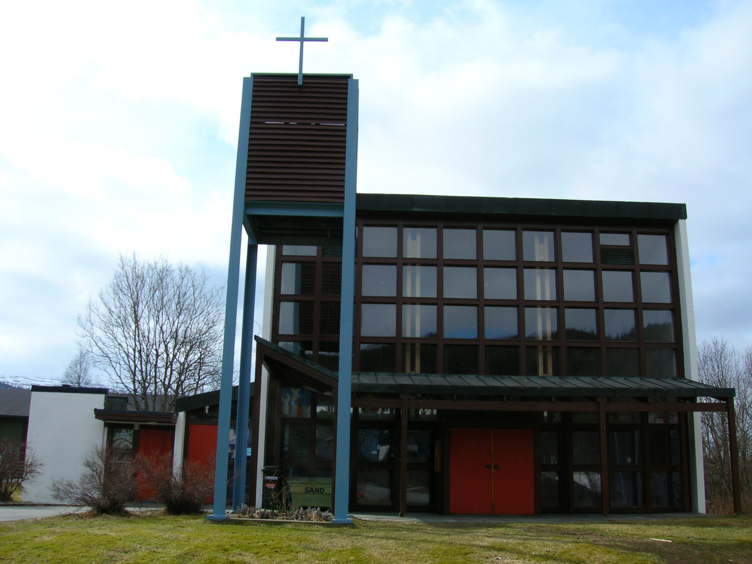 Selfors church, Mo i Rana, Nordland, Norway, Photo May 2, 2007 with a Nikon Coolpix 5600 5,1 Megapixel camera.